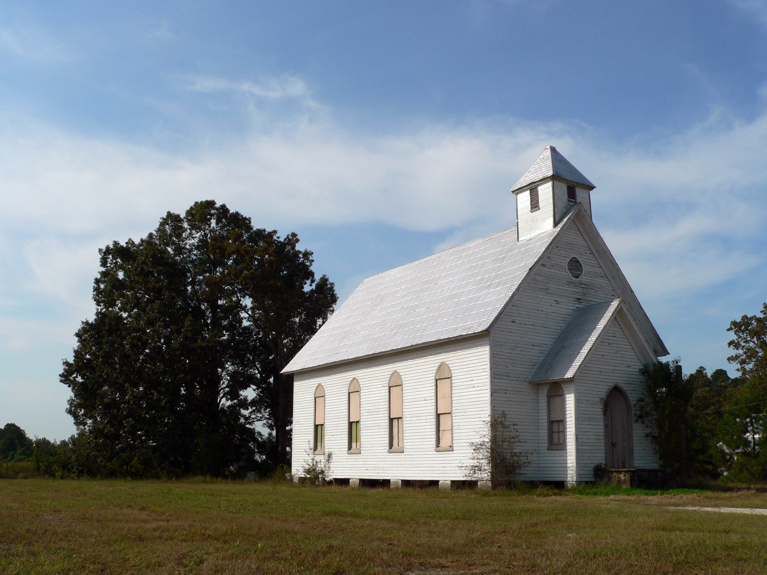 The old Oaky Grove Methodist Episcopal Church at Walnut Hill, about 4 miles south of Knightdale, North Carolina.